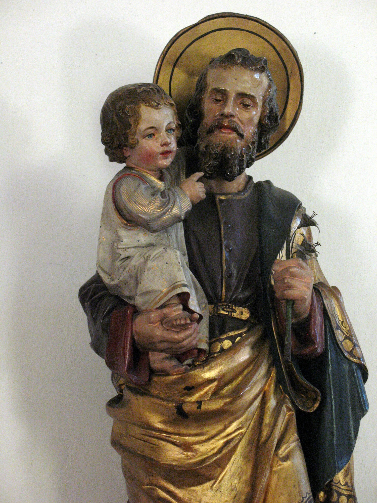 Detail of Saint Joseph by the Tyrolean sculptor Franz Tavella around 1900 in the Saint Joseph Church in Atzwang/Ritten South Tyrol